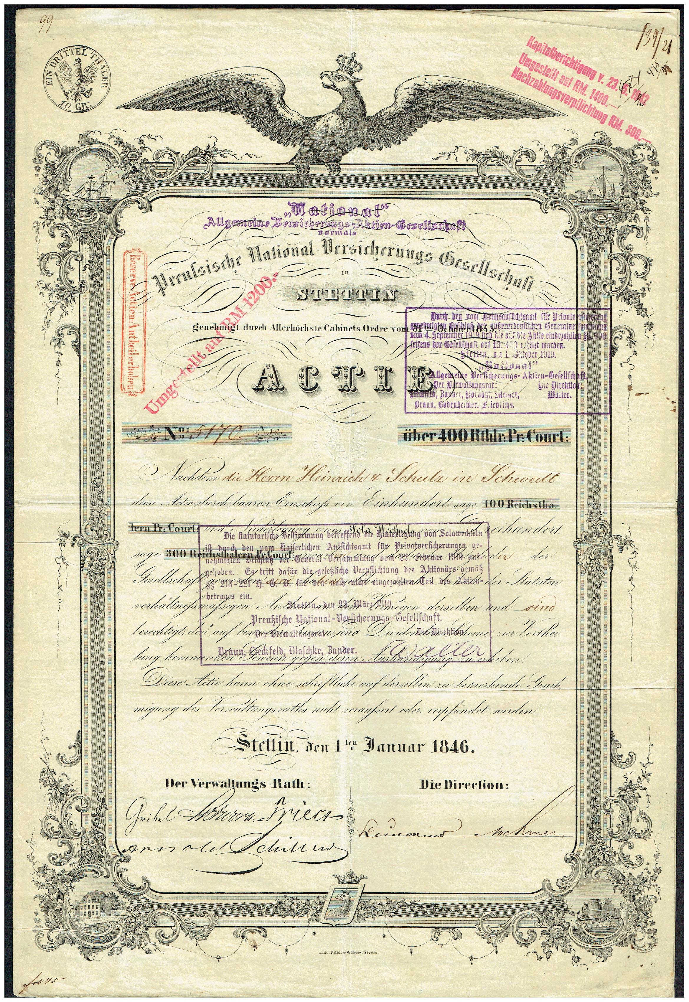 Share of the Preußische National-Versicherungs-Gesellschaft, issued 1. January 1846